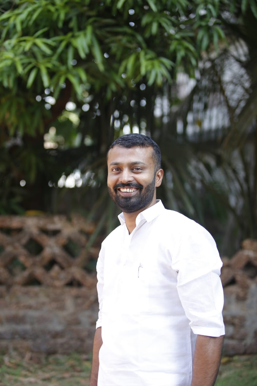 C O T Naseer (born 8 May 1981) is a young politician and independent candidate from Vadakara constituency in 2019 Loksabha election. He was born to T M Sawan-Amina couple in Keyi family in Thalassery.